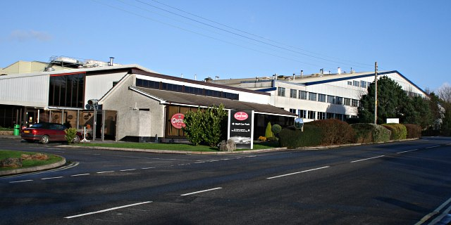 Ginsters Bakery This is a very large food factory. Some would say that it is Callington's main claim to fame. Rather a lot of Cornish Pasties are baked here.